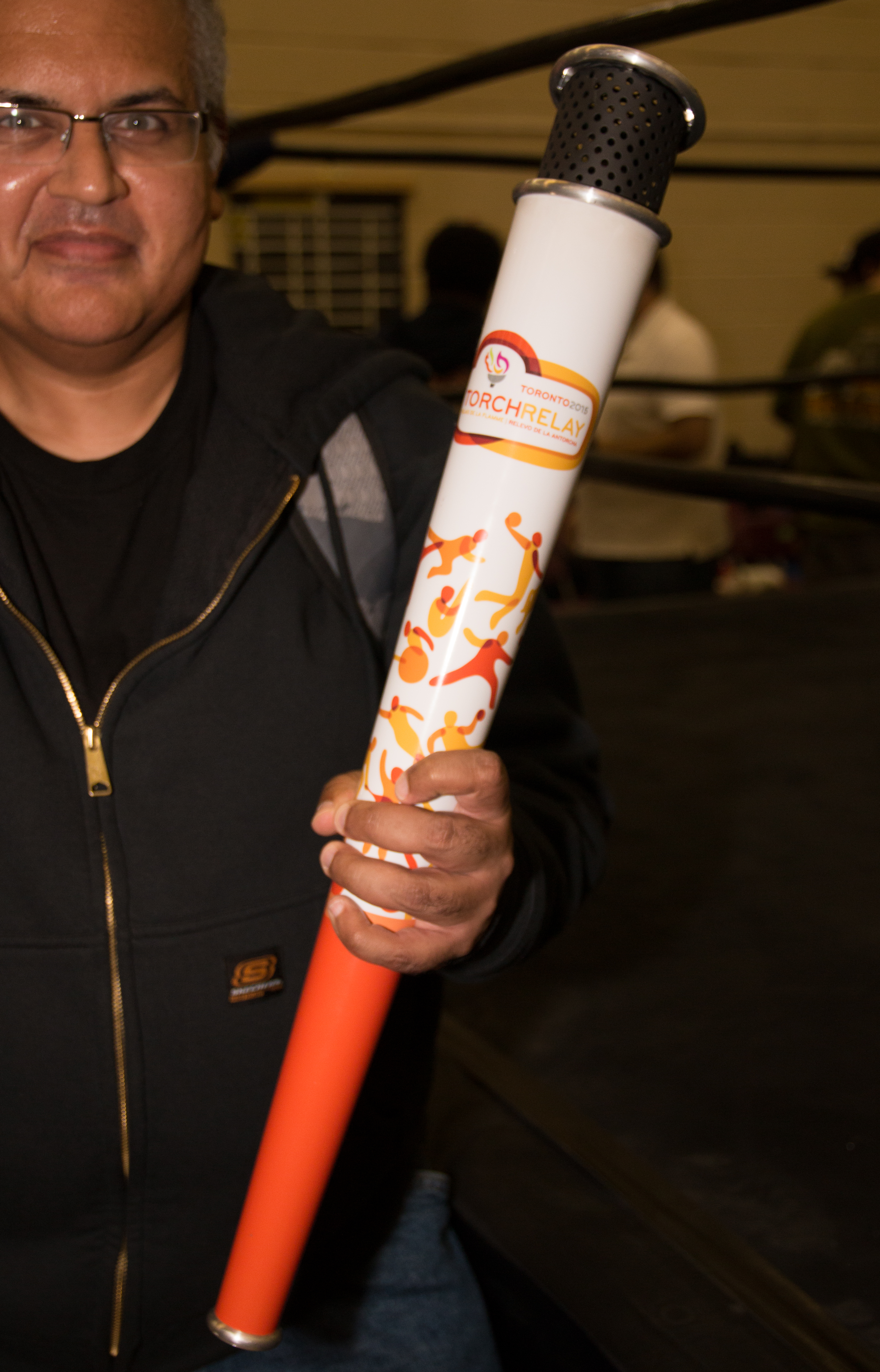 One of the torches from the 2015 Pan American Games, photographed at a Smash Wrestling event